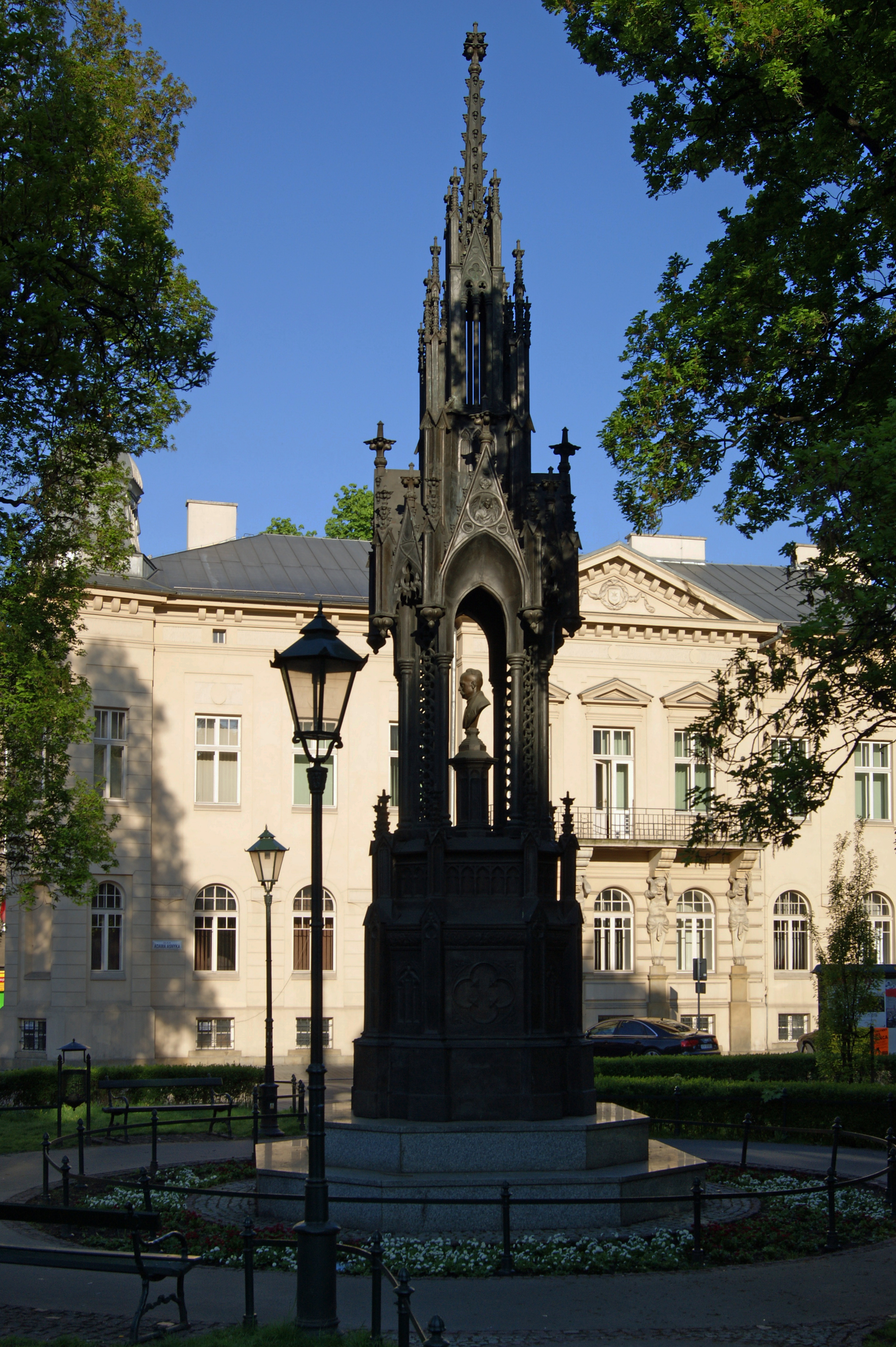 Tadeusz Rejtan Monument, 1859 by sculptor Teodor Zakrzewski, Garbarska street, Krakow, Poland